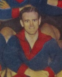 Photo of Ken Albiston taken in 1952